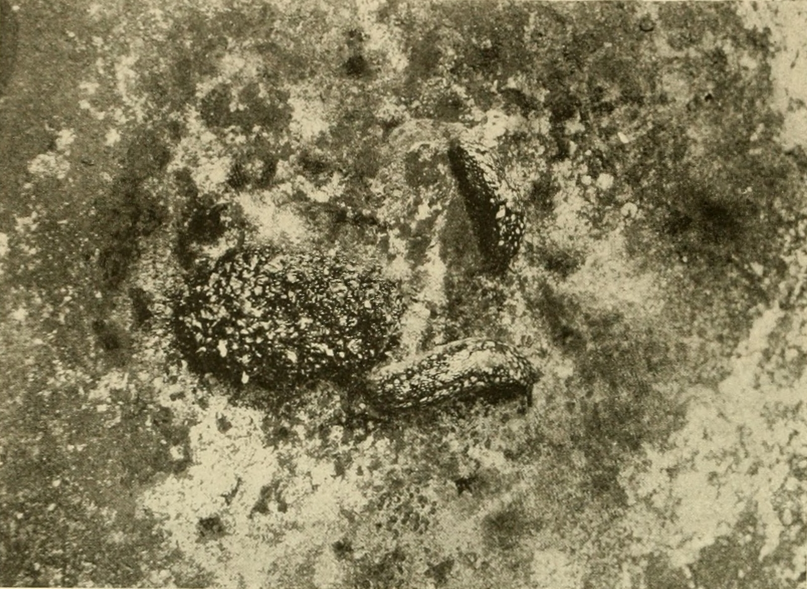 Black and white photo of Geomalacus maculosus shows that this species has protective coloration among lichens.